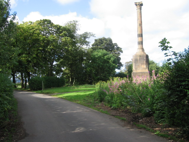 Monument to protesters for Parliamentary reform Plaque reads To the memory of Captain Alexander Baird and Alexander Maclaren also John Burt, John Kennedy, Archibald Craig and other Kilmarnock pioneers of Parliamentary reform who in the early part of the nineteenth century devoted themselves with unselfish zeal to the cause of the people. Erected by public subscription 1885